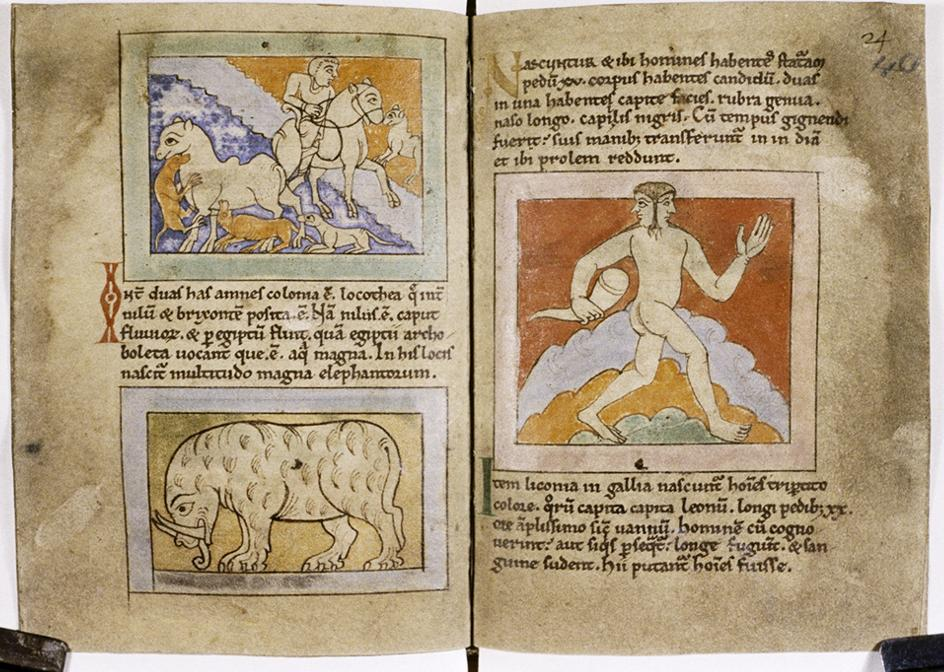 "Similar ants eat male camel. Gold seeker escapes of female camel (which seeks its ; young one across a river). Elephant. White giant with two faces. Copies a prototype of 11th century, probably London, B.L., Cotton MS. Tiberius B.V. ". Text by [1]: Inter duas has amnes colonia est Locothea que inter Nilum et Brixontem posita est. Nam Nilus est caput fluuiorum et per Aegiptum fluit quam Aegiptii archoboleta uocant, que est aqua magna. In his locis nascitur multitude magna elephantorum. Nascuntur et ibi homines habentes staturam pedum .xv. corpus habentes candidum, duas in una habentes capite facies. rubra genua. naso longo. capillis nigris. Cum tempus gignendi fuerit., suis manibus transferuntur in Indiam et ibi prolem reddunt. Item liconia in Gallia nascuntur homines tripertito colore, quorum capita capita leonum longi (28) pedibus .xx. ore amplissimo sicut uannum. hominem cum cognouerint, aut si quis persequatur, longe fugiunt et sanguine sudent. Hii putantur homines fuisse. ---- 28. om. longi T cognouerint] -unt T